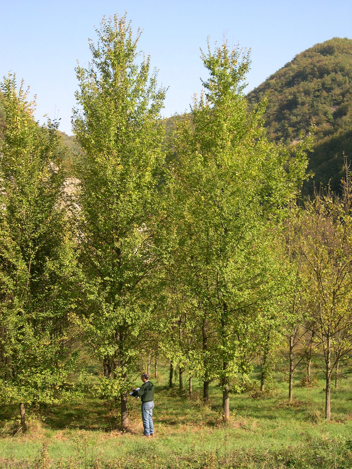 From author's archive.